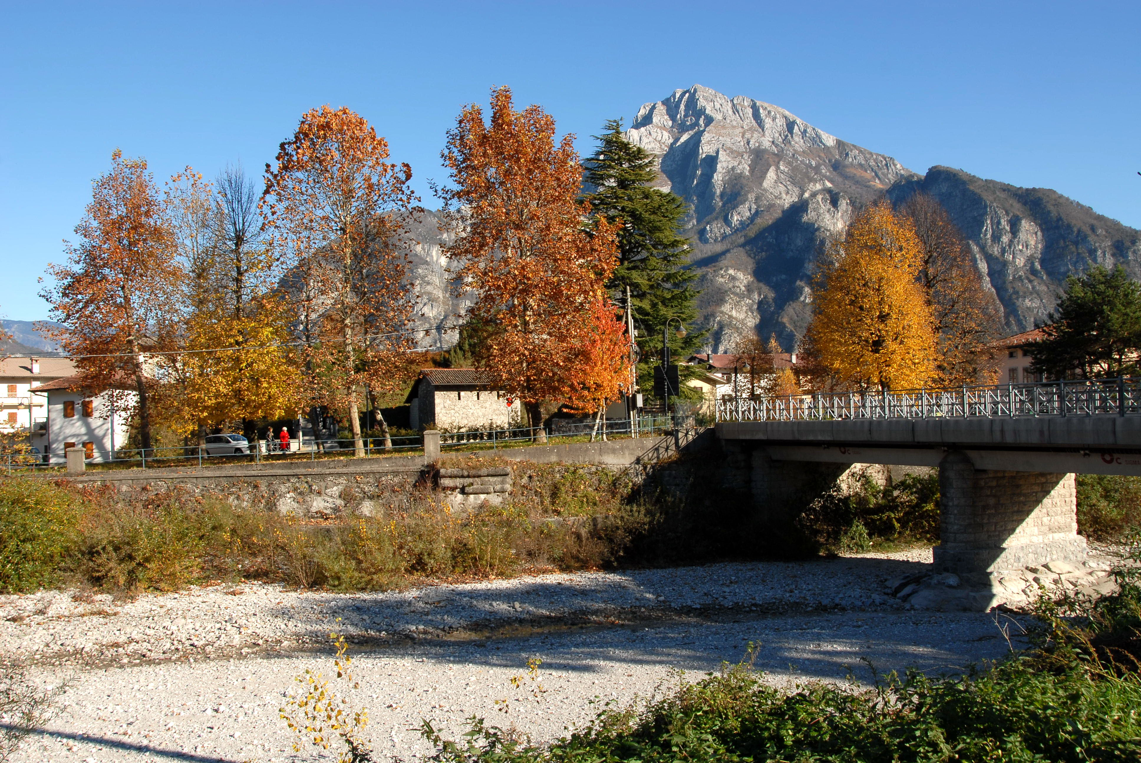 Mount Amariana (in front the bridge across the creek Faéit) seen from the community Cavazzo Càrninco, province of Udine, region Friuli Venezia-Giulia, Italy